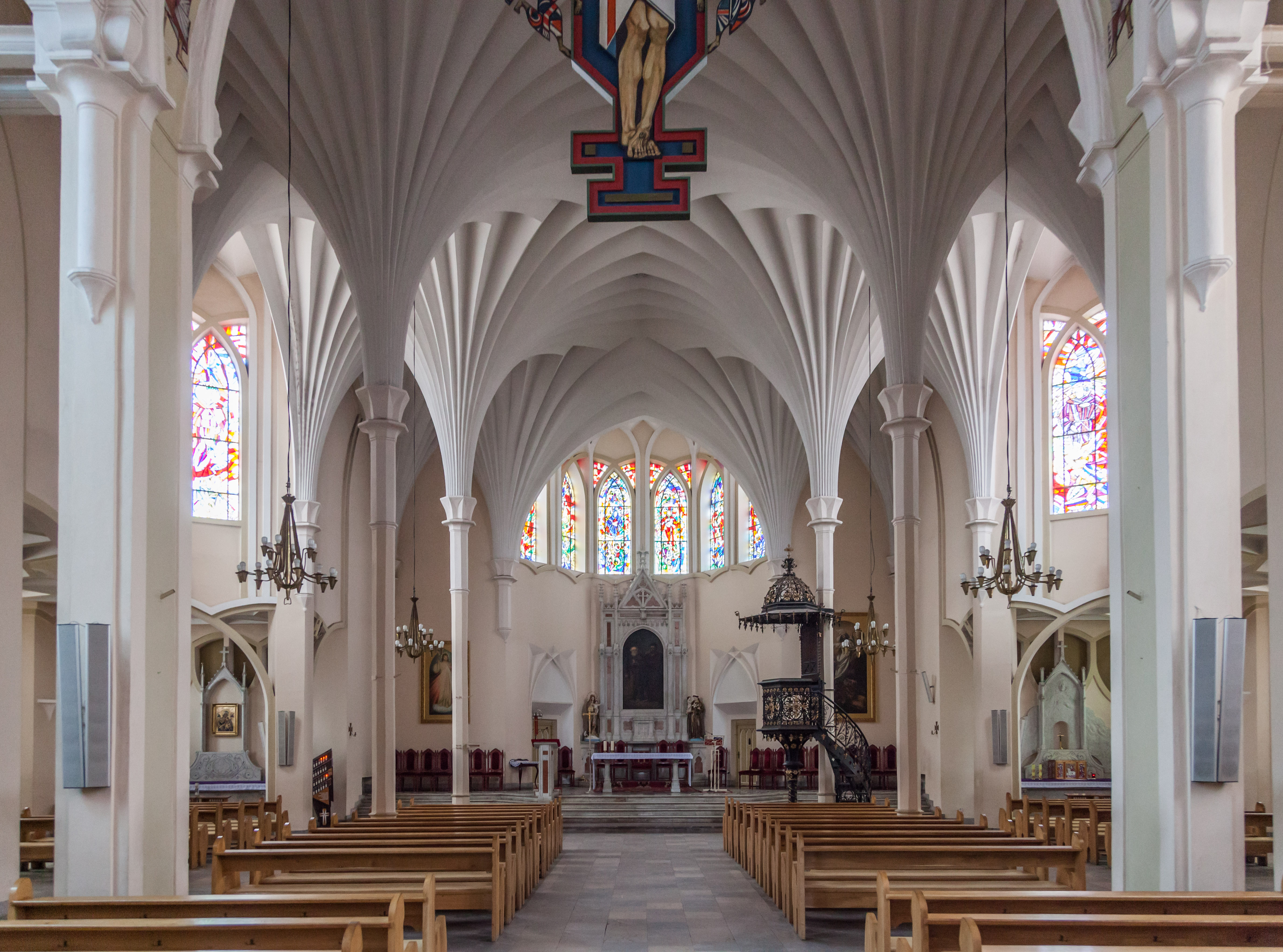 Church of SS Peter and Paul in Ciechocinek, Poland